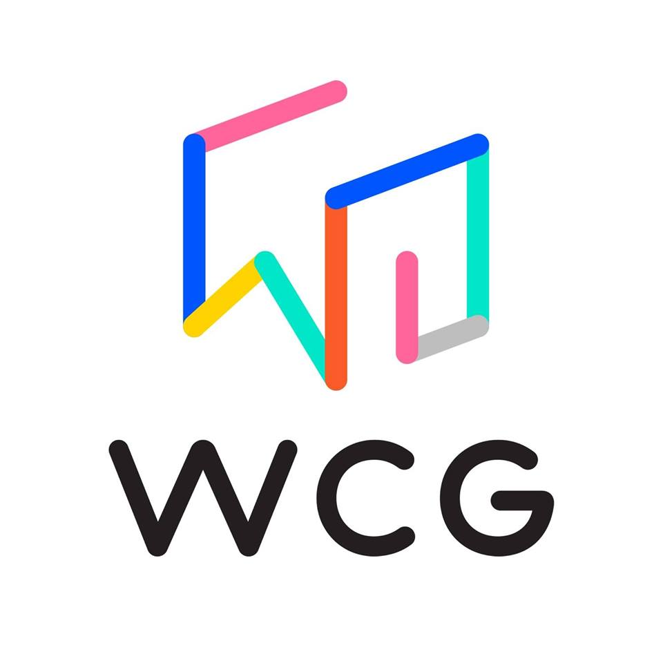 World Cyber Games New Logo